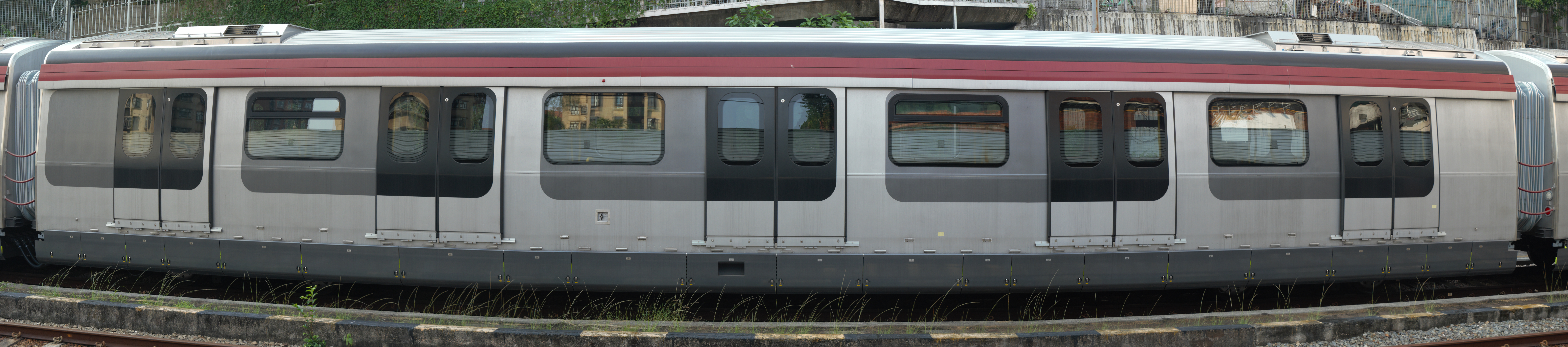 MTR East Rail Line Hyundai Rotem EMU - Compartment M004 - Side (with traction motor)